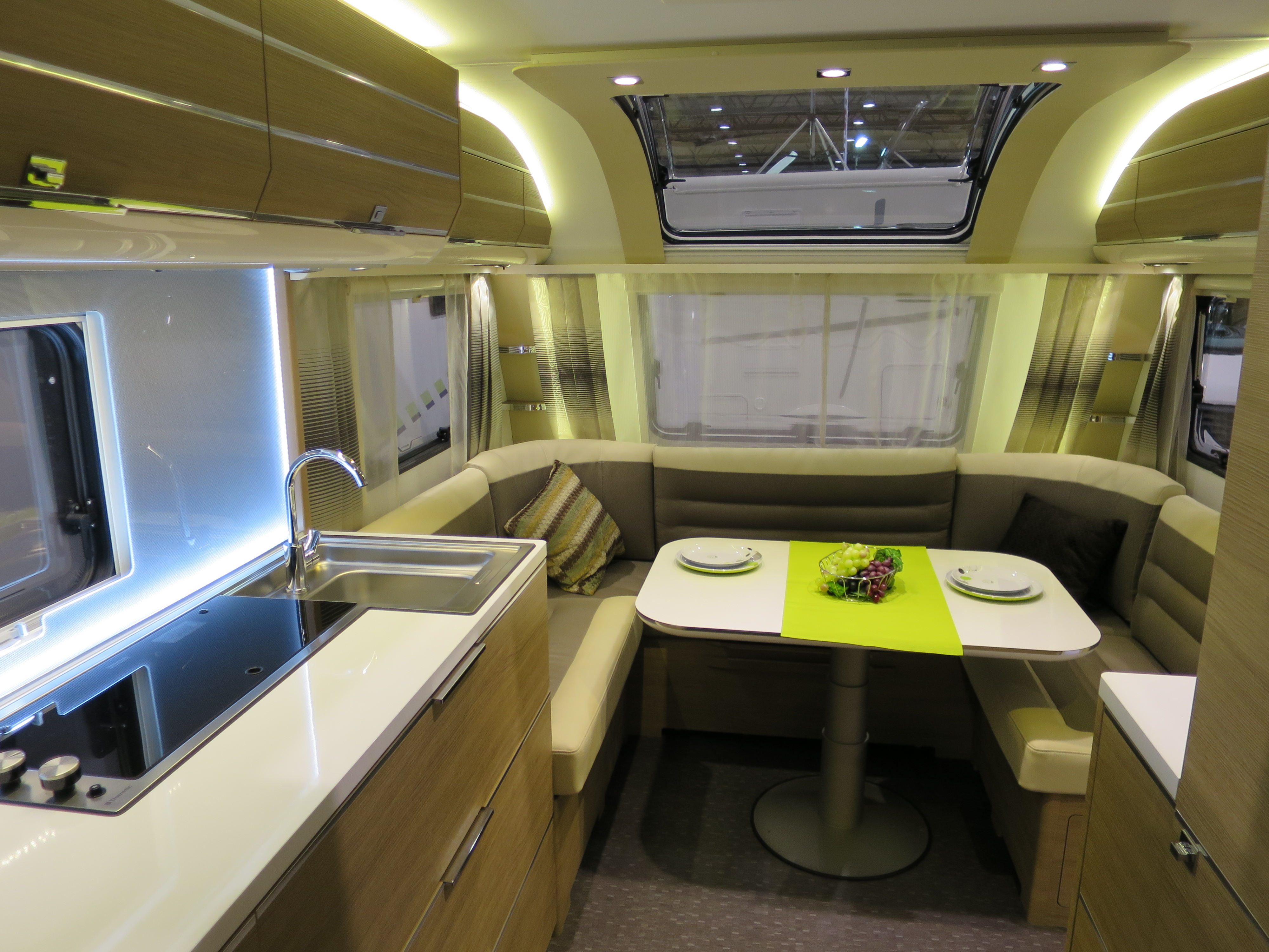 Adria Adora 573 UC.